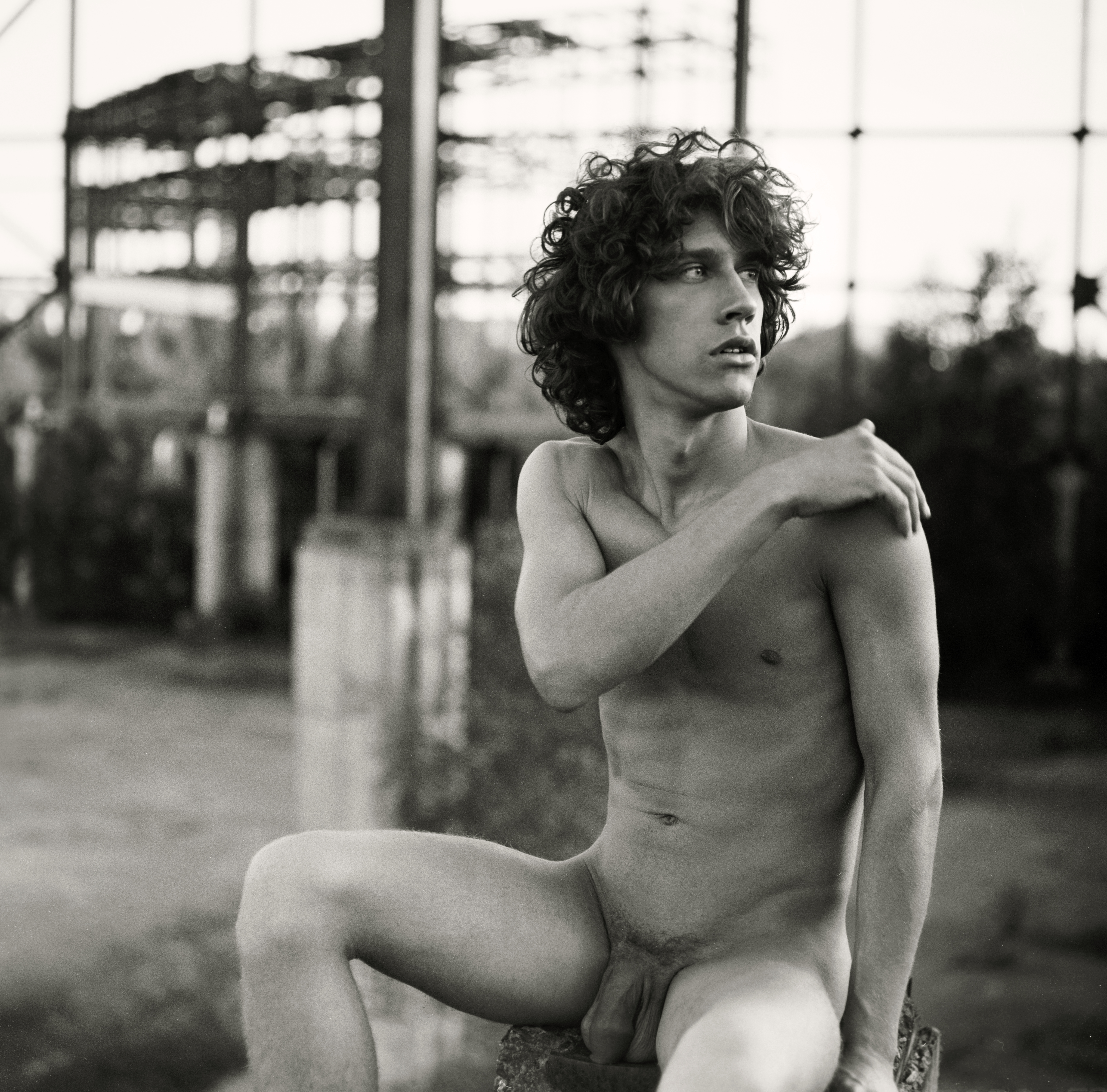 Photography by Sasha Kargaltsev.